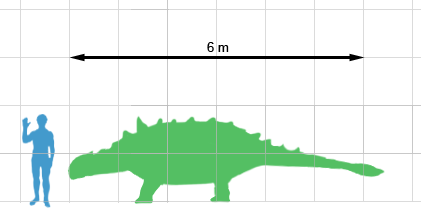 Size of Euoplocephalus tutus (or Scolosaurus sp.) compared with a human. Scaled based on the skull of specimen AMNH 5405.